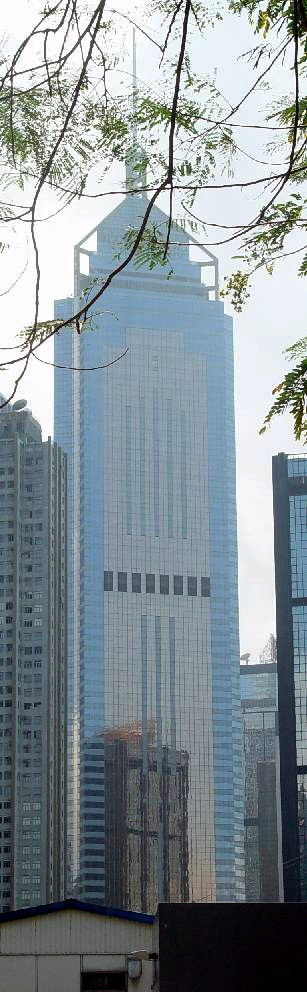 Central Plaza, Hong Kong I have taken this photo myself with my own Sony DSC-707. See EXIF records for details.